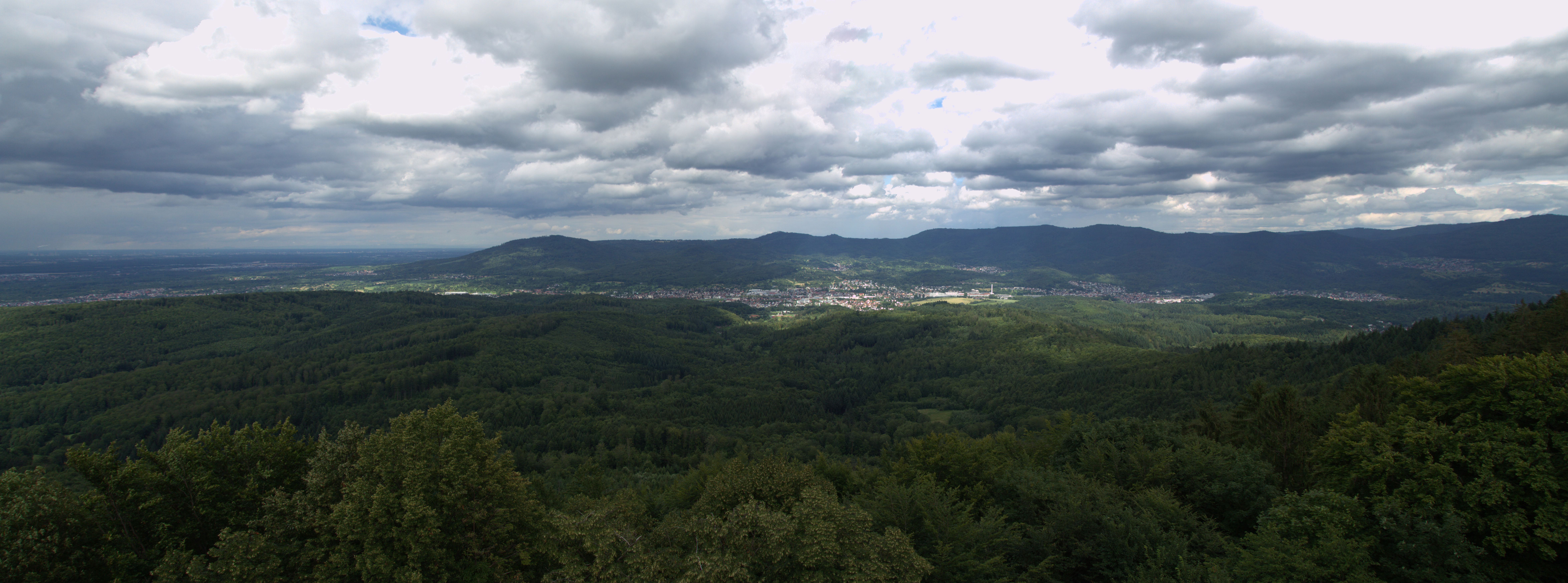 A view of the Murgtal at Gaggenau. Standing at the old castle Alt-Eberstein.